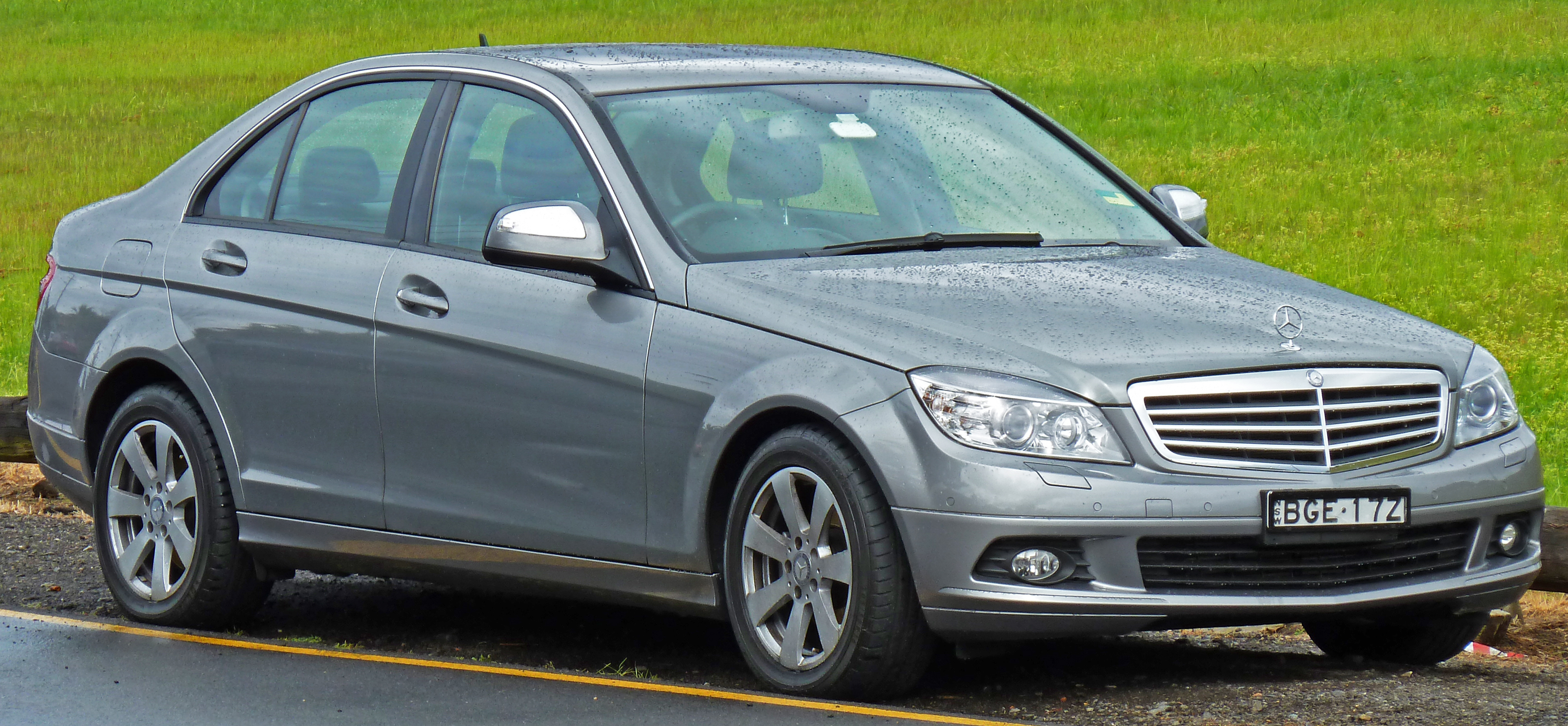 2008 Mercedes-Benz C 200 Kompressor (W 204) Classic sedan. Photographed in Sans Souci, New South Wales, Australia.